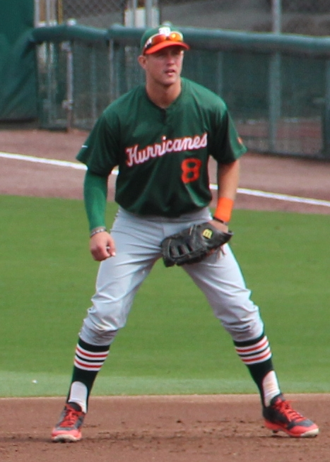 David Thompson in 2013